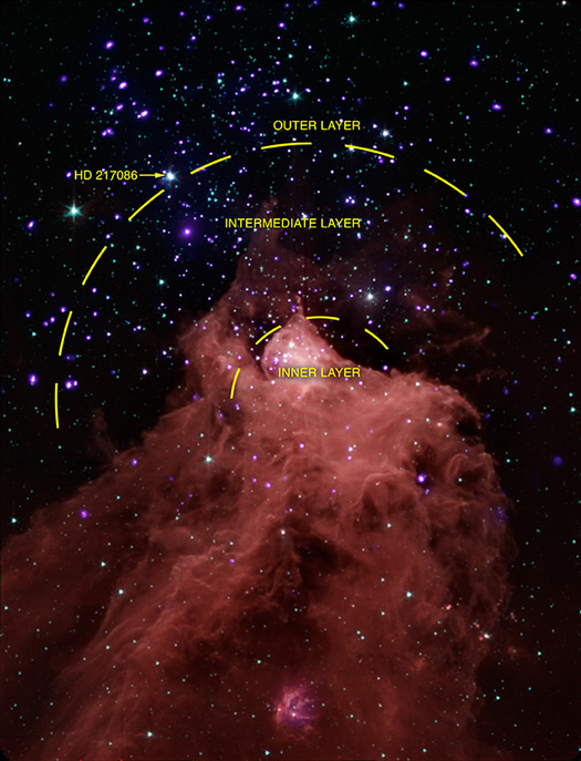 Cepheus B: Trigger-Happy Star Formation